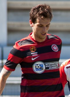 Matthew Spiranovic in action with the Wanderers NYL team